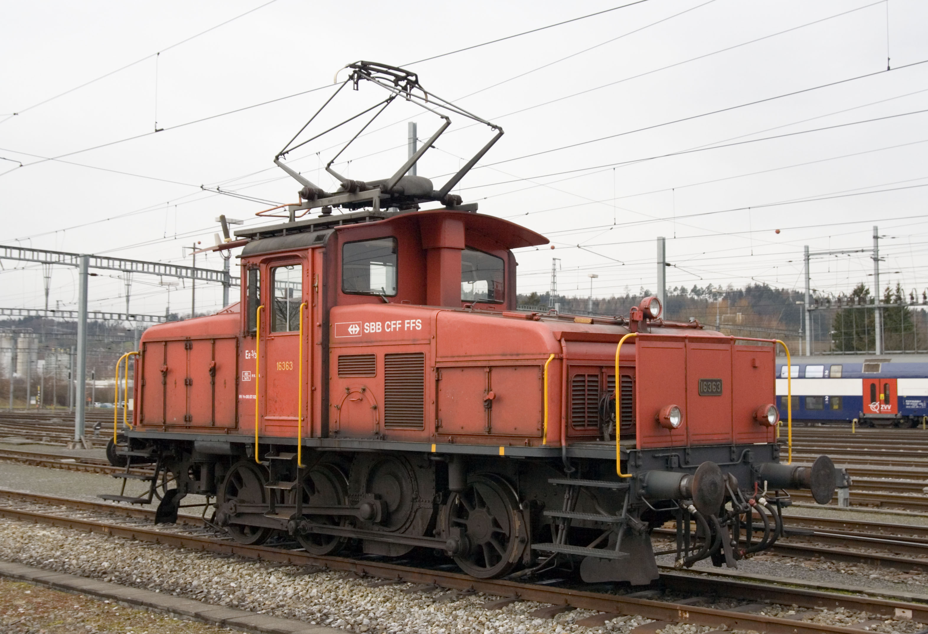 Medium power electric shunter of type SBB Ee 3/3 at Oberwinterthur